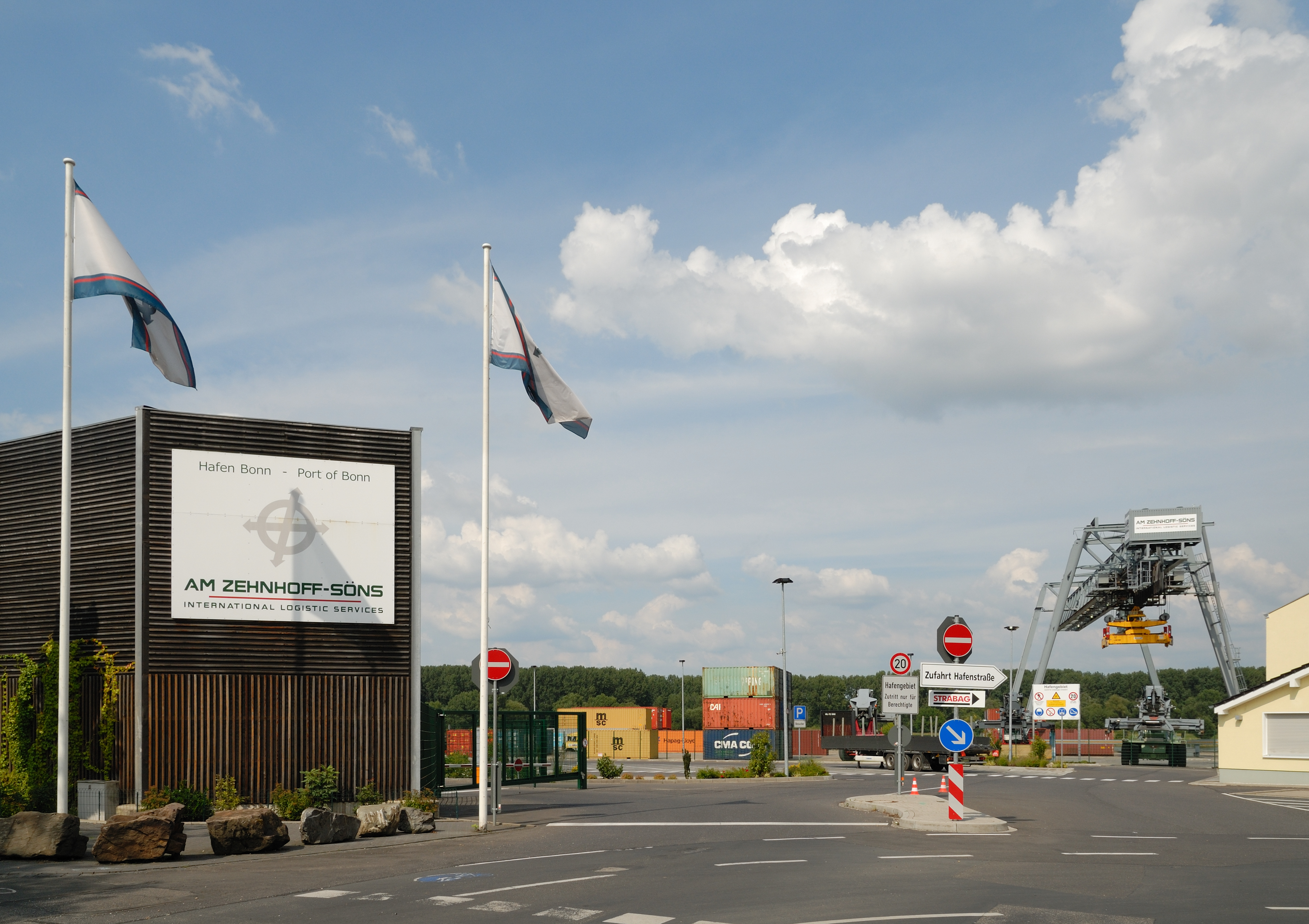 Access to Port of Bonn.